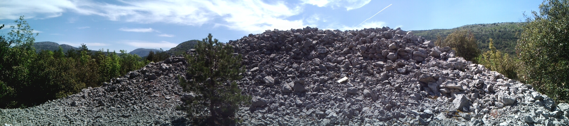 Illyrian cemetery